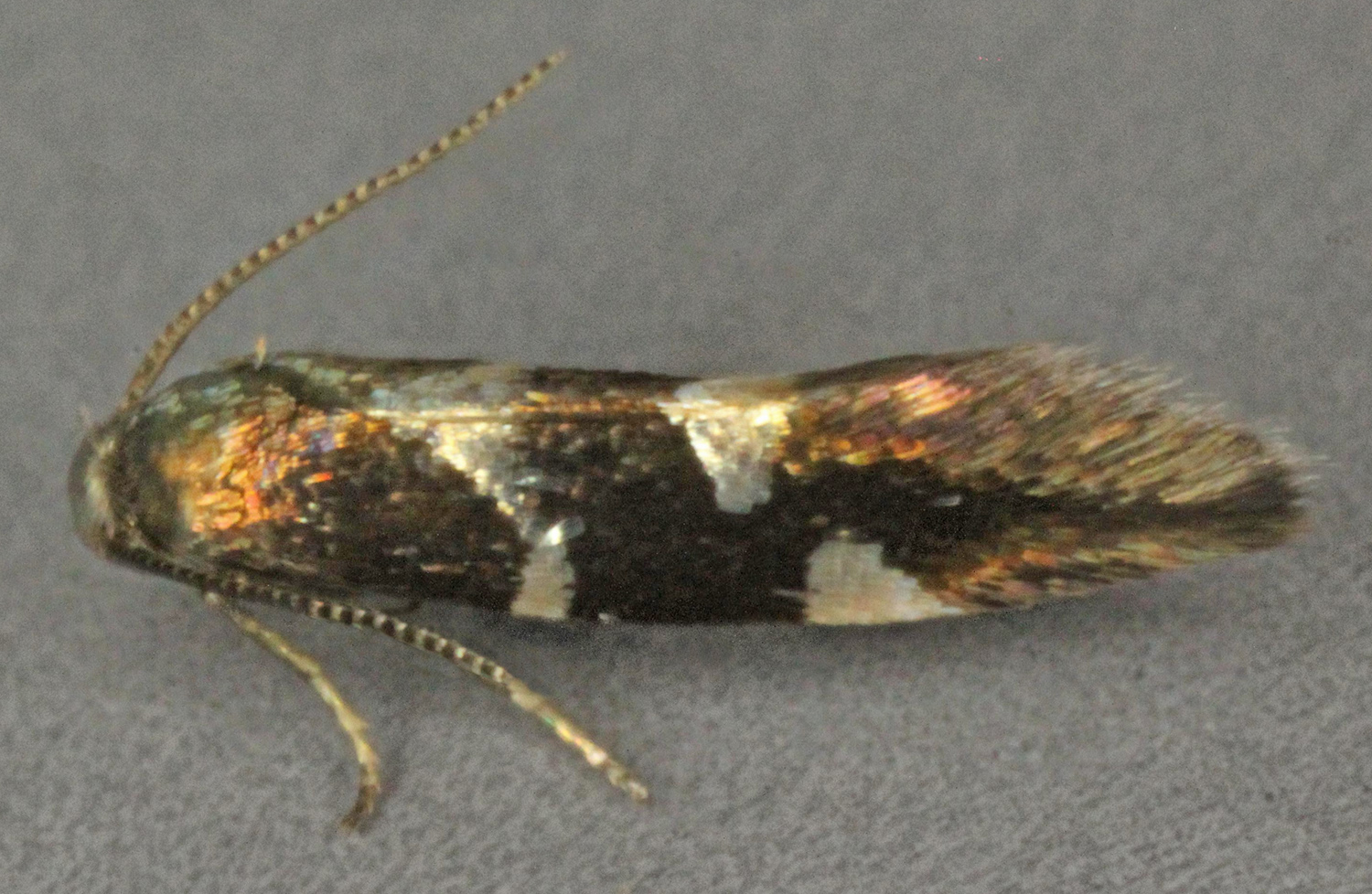 Antispila metallella, Llanymynech Hill, North Wales, April 2014